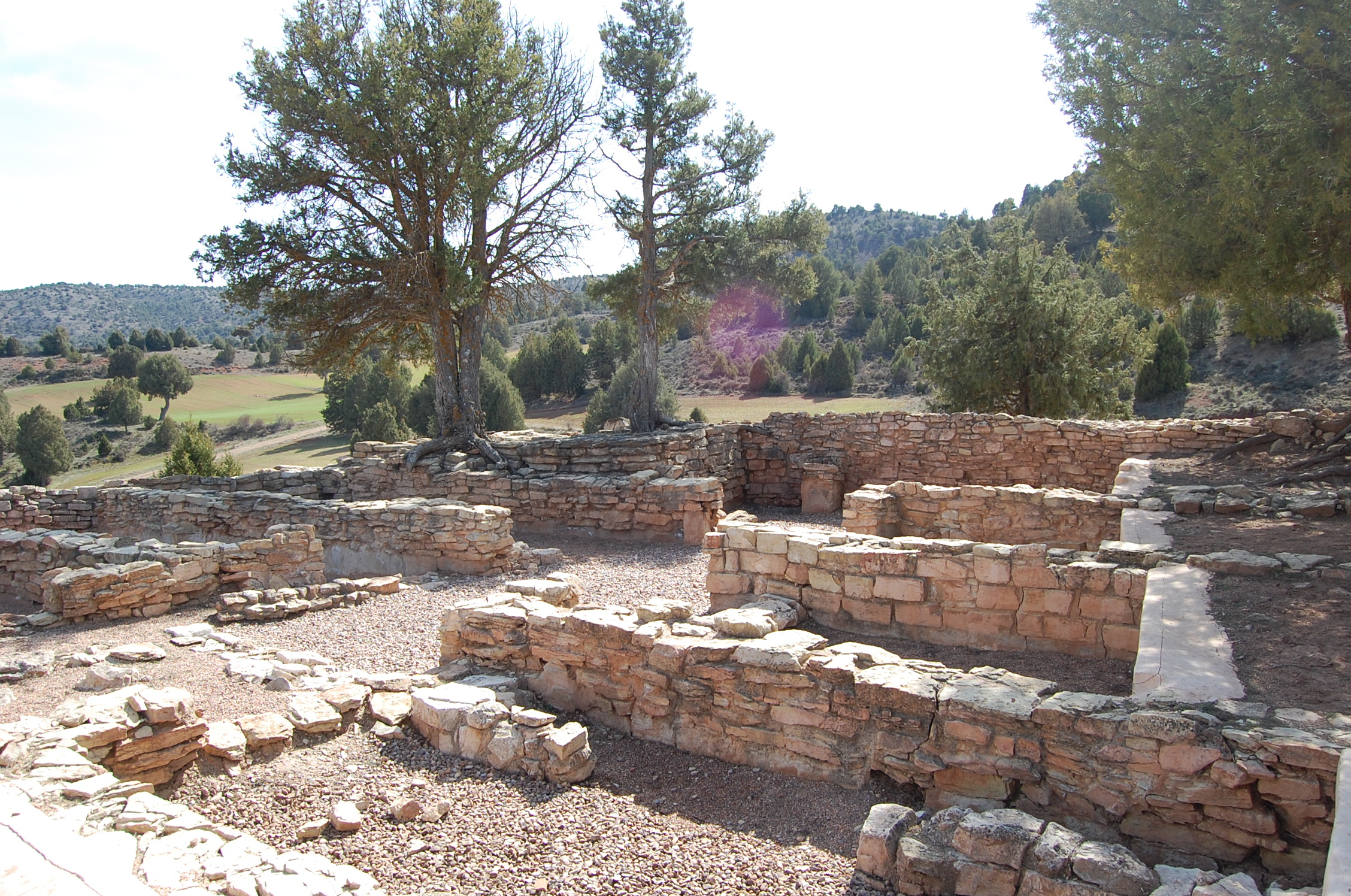 Partial view of celtiberian houses.